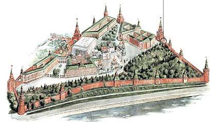 Overview map of the Moscow Kremlin. Location of Tsarskaya Tower marked.